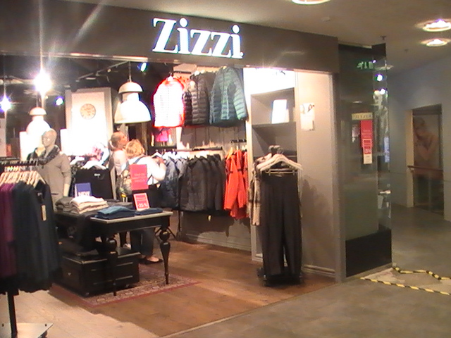 Zizzi clothing store at IsoKarhu in Pori, Finland. Zizzi is the Danish clothing chain and It have stores in seven countries.